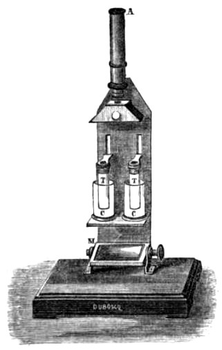 Drawing of one of the first colorimeters, built by Jules Duboscq in France.